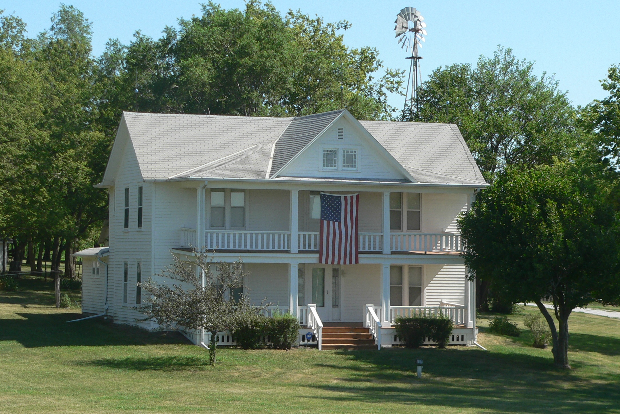 Snoke-Tate farmstead, located at 23416 O Street, east of Eagle in rural Cass County, Nebraska. House, seen from the southwest.